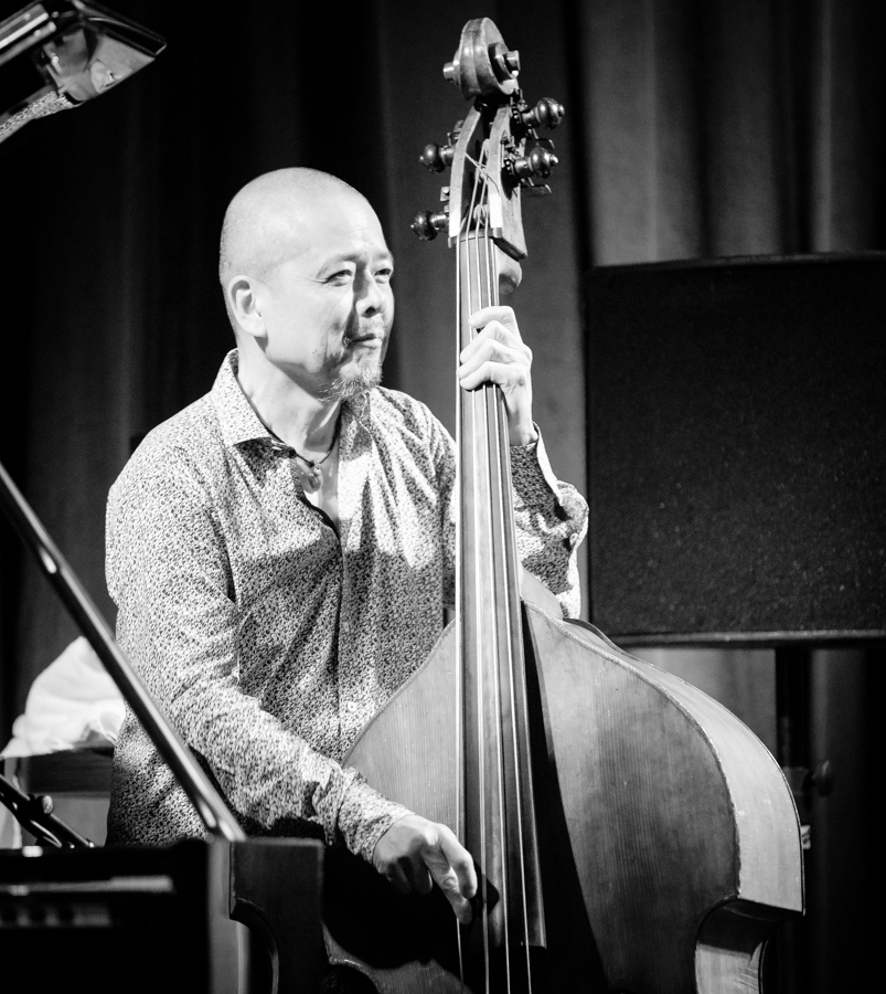 Kiyoshi Kitagawa with Kenny Barron at Victoria Teater. The concert was part of Oslo Jazzfestival and took place on 13. August 2018 in Oslo. Lineup:Kenny Barron (piano)Kiyoshi Kitagawa (double bass)Johnathan Blake (drums)